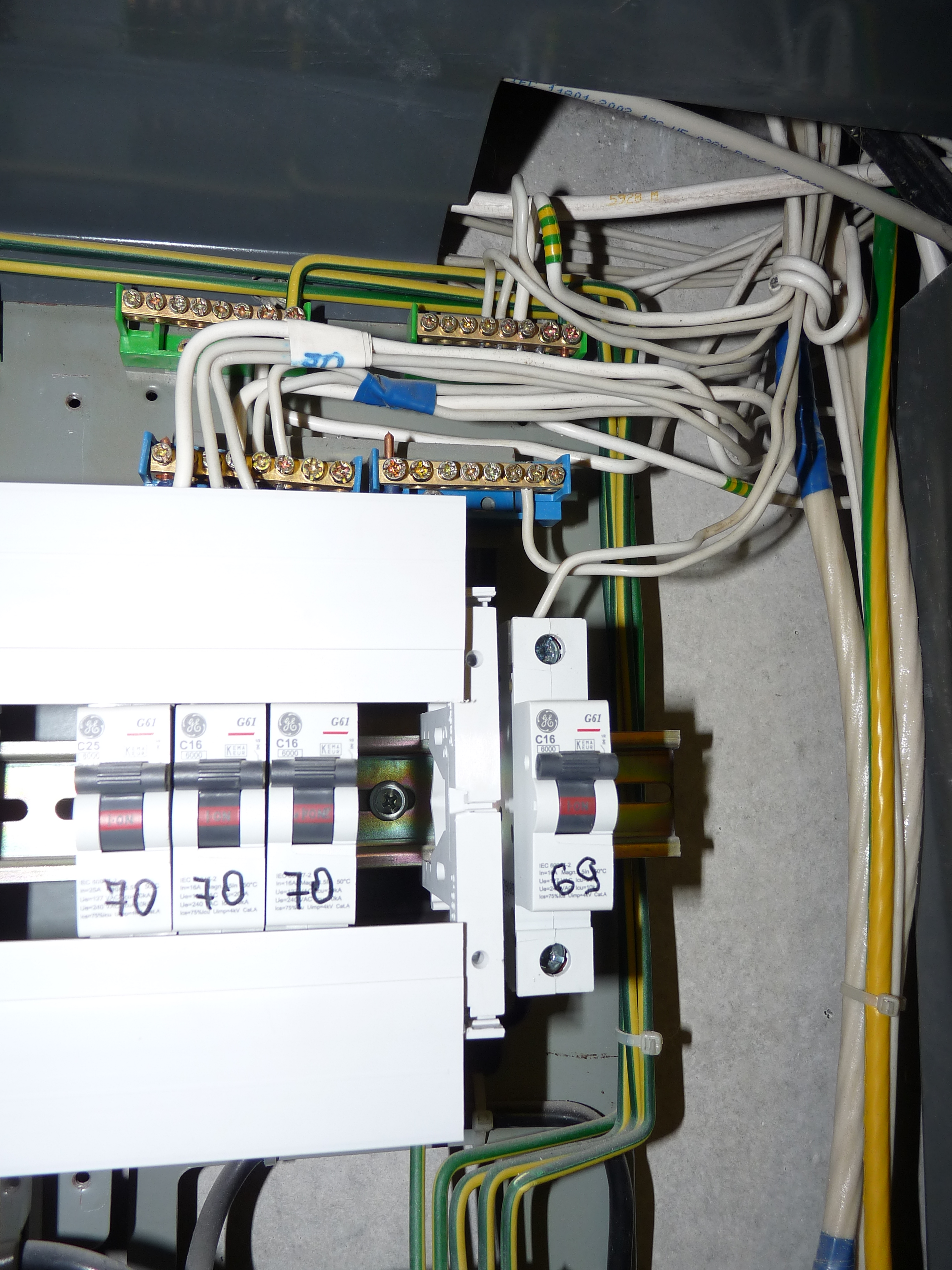 Only one circuit for tools is saved as temporary. Other are switched to ground busbar